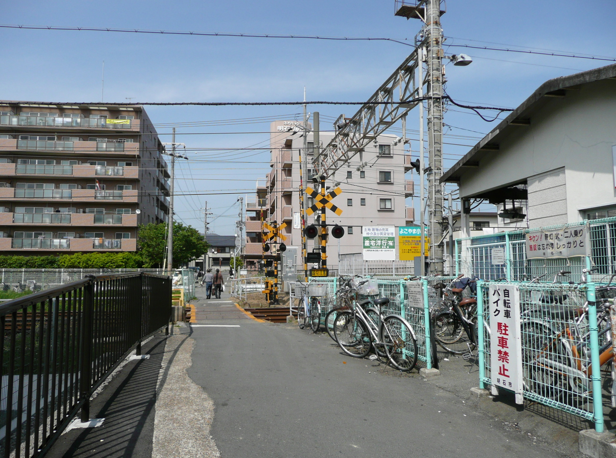 The vicinity of Sanyo-Uozumi Station(Sanyo Electric Railway). / 山陽電気鉄道山陽魚住駅駅前（北側）